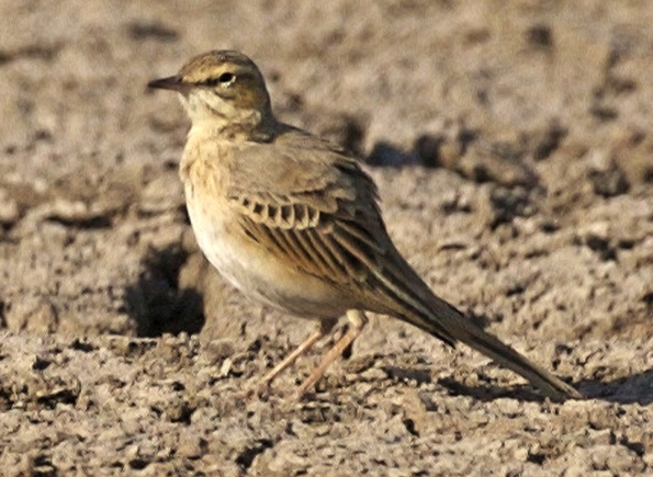 An overwintering Tawny pipit, photographed on 28th November 2006 at Rajkot, Gujarat, India